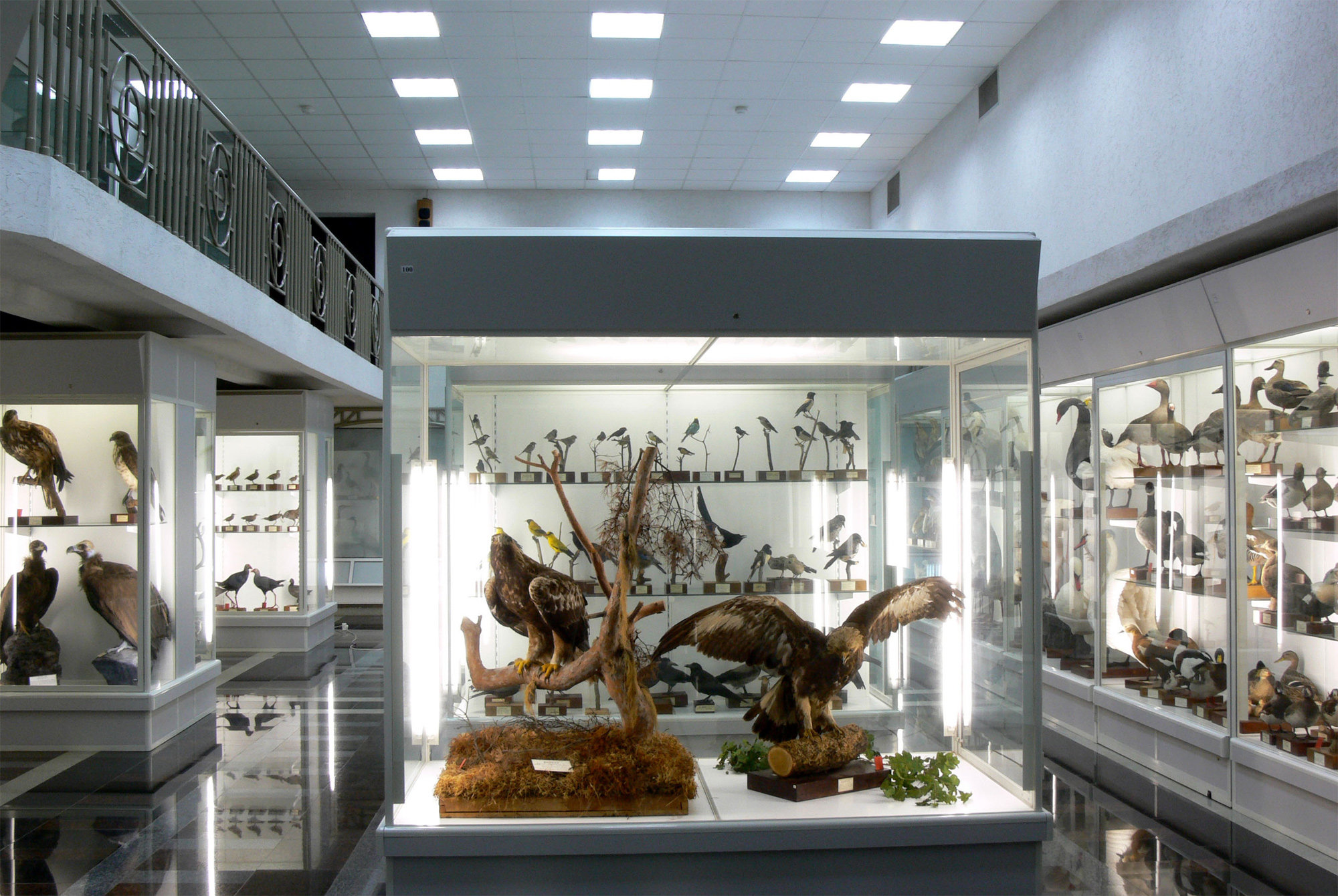 Zoological Museum of the Belarusian State University